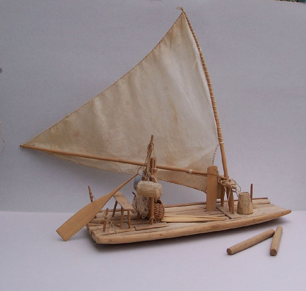 modell of a Jangada, built by Airton Caetano da Silva, Fortaleza CE Jangadas: A Brazilian Fishing Craft